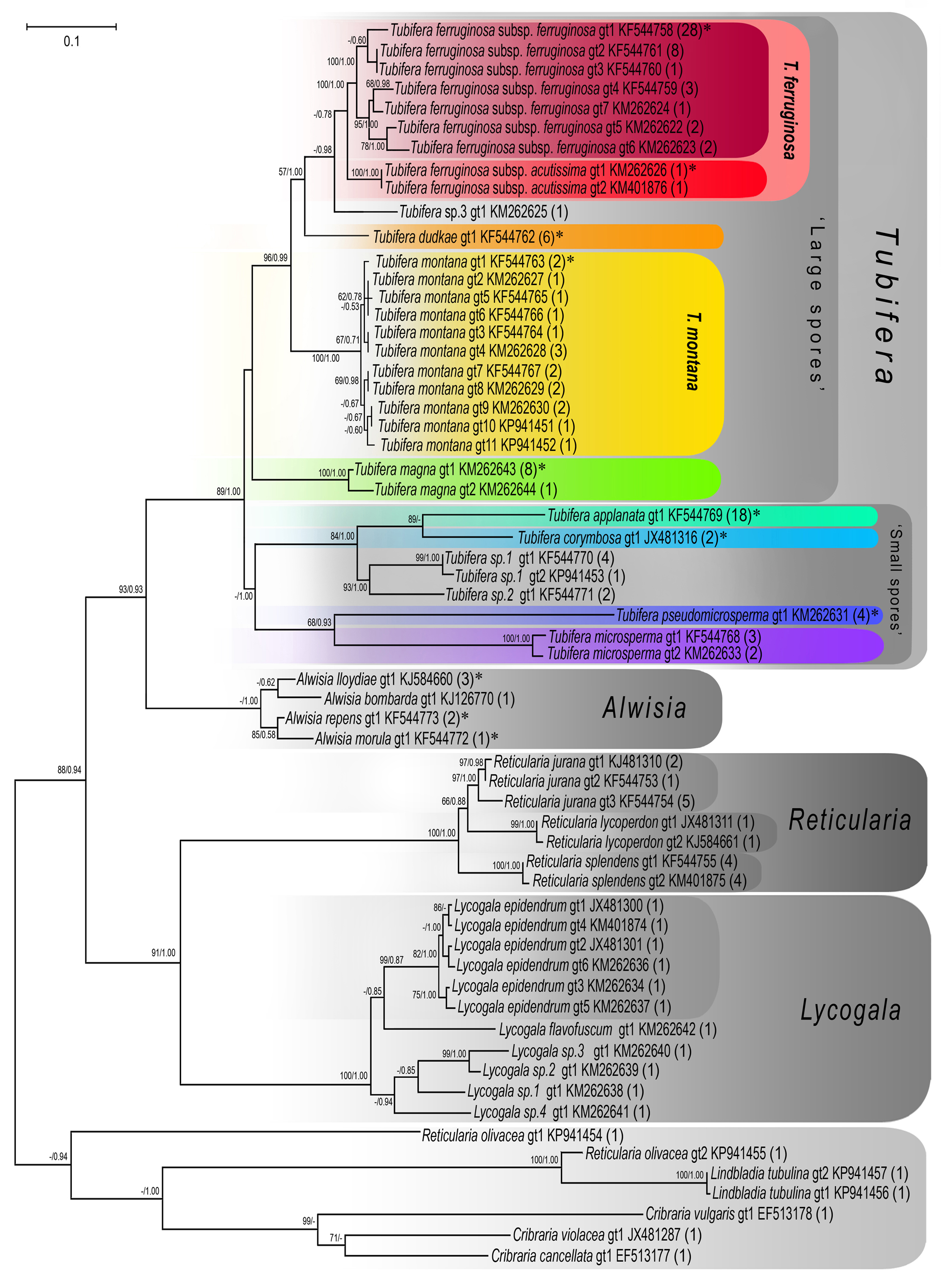 Evolutionary tree of the family Reticulariaceae, constructed on the base of analysis of DNA nucleotide sequences.